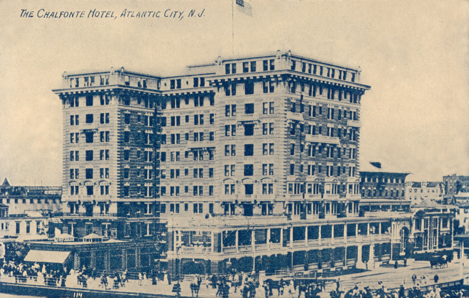 Blue and white photograph of The Chalfonte Hotel, Atlantic City, New Jersey. Back is divided and reads "Post Card Dist. Co., Atlantic City, N. J."